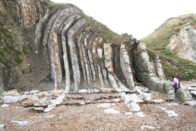 Rock Strata, Durdle Door Layers of hard and soft sedimentary rocks upended. Some of the soft shales appear similar to the oil bearing "Grey wacky".